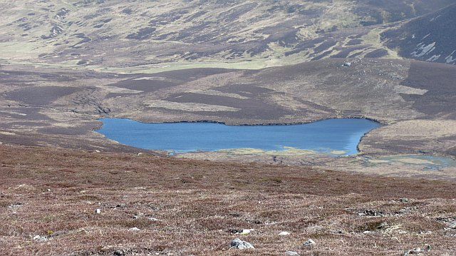 Loch Tilt located at the head of Glen Tilt Scotland.